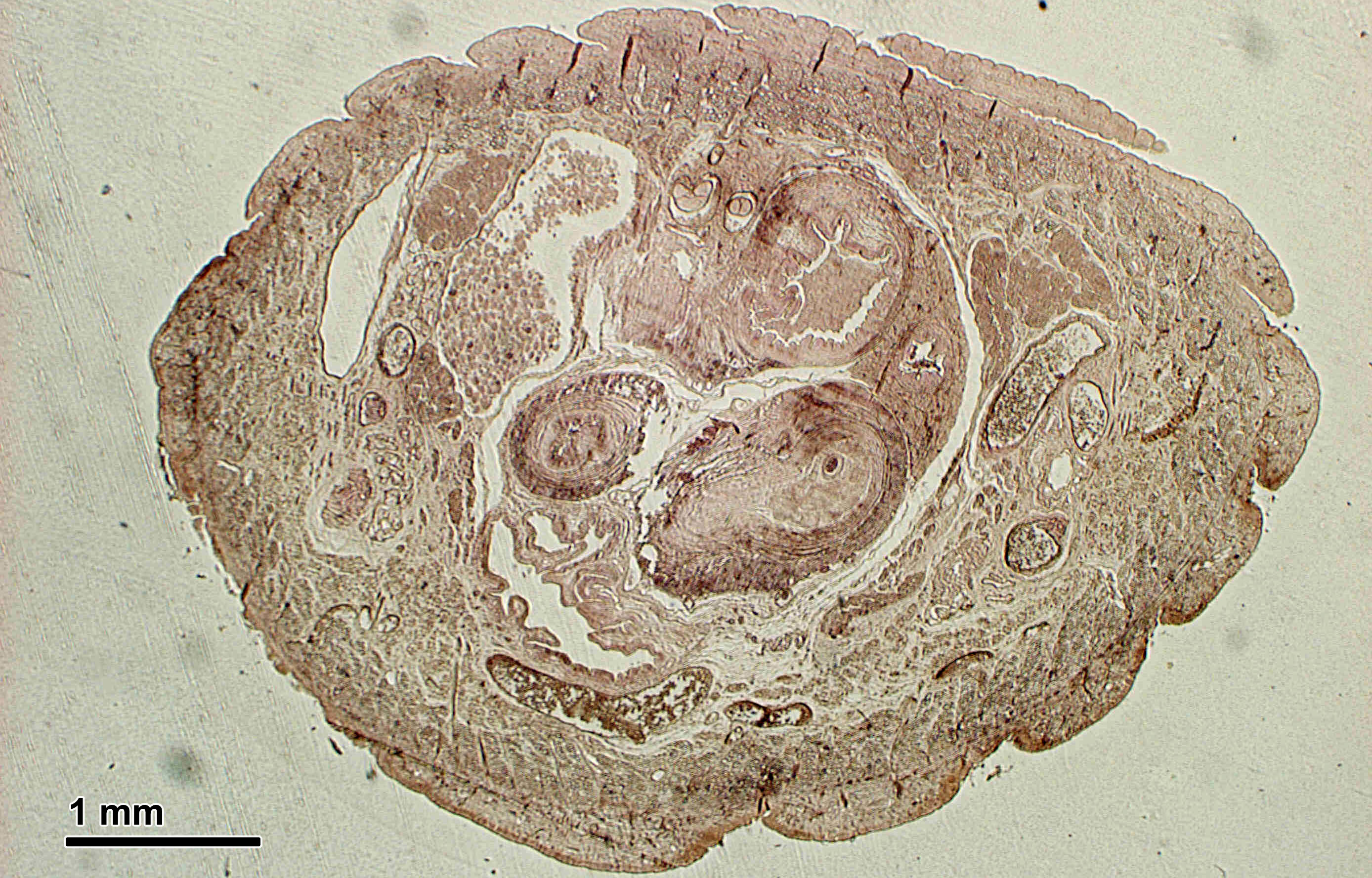 Leech: Cross-section of leech (Hirudinea). Optical microscopy technique: Bright field. Magnification: 36x (for picture width 26 cm ~ A4 format).